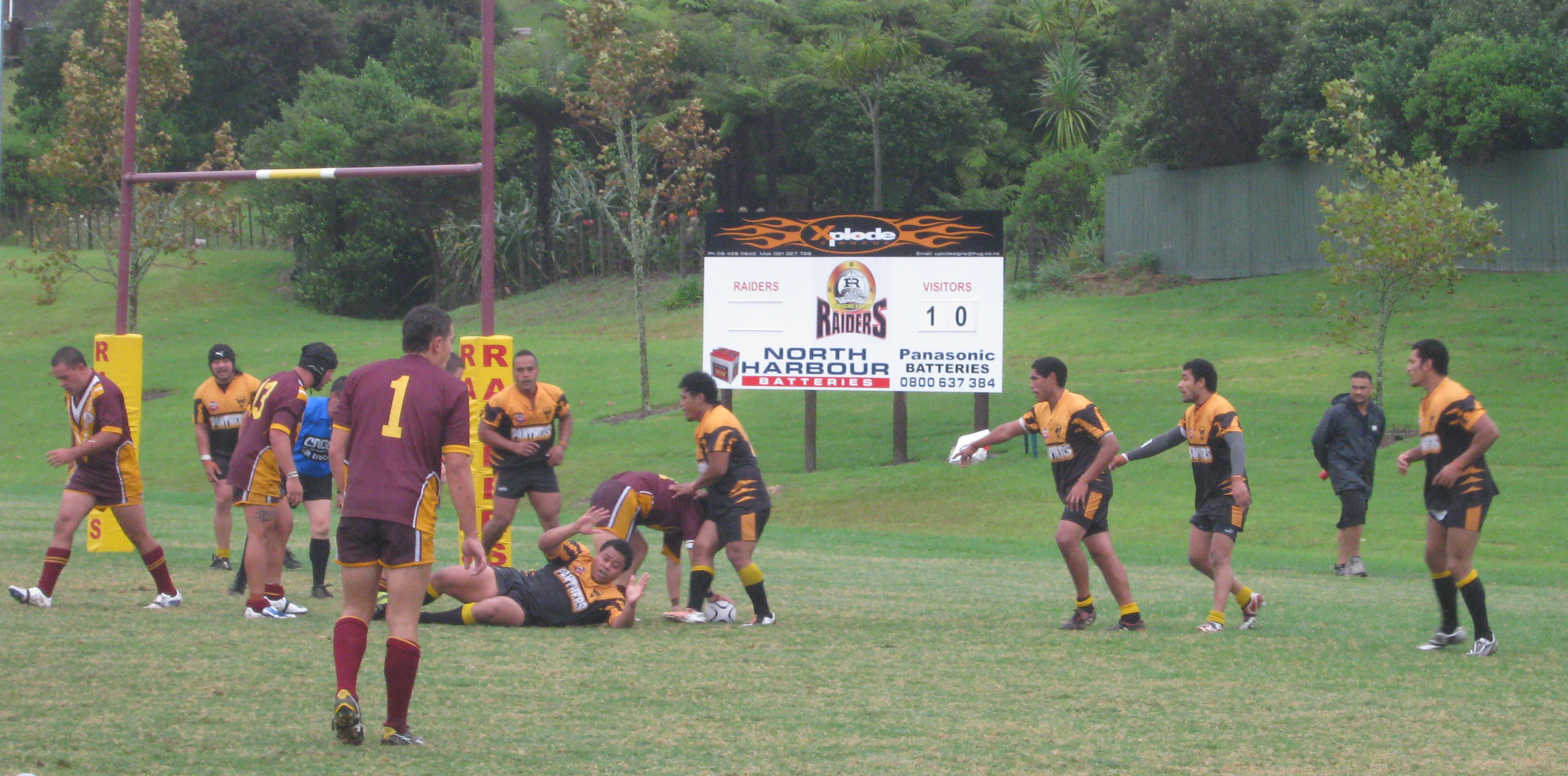 The Hibiscus Coast Raiders vs Papatoetoe Panthers on 26 March 2011 at Stanmore Bay